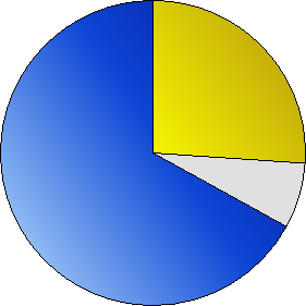 This diagram shows the results of a poll conducted in the United States (february 2005, Bisconti Research Inc.). According to the poll, 67% of americans favor nuclear energy (marked with blue), while 26% oppose it (yellow).